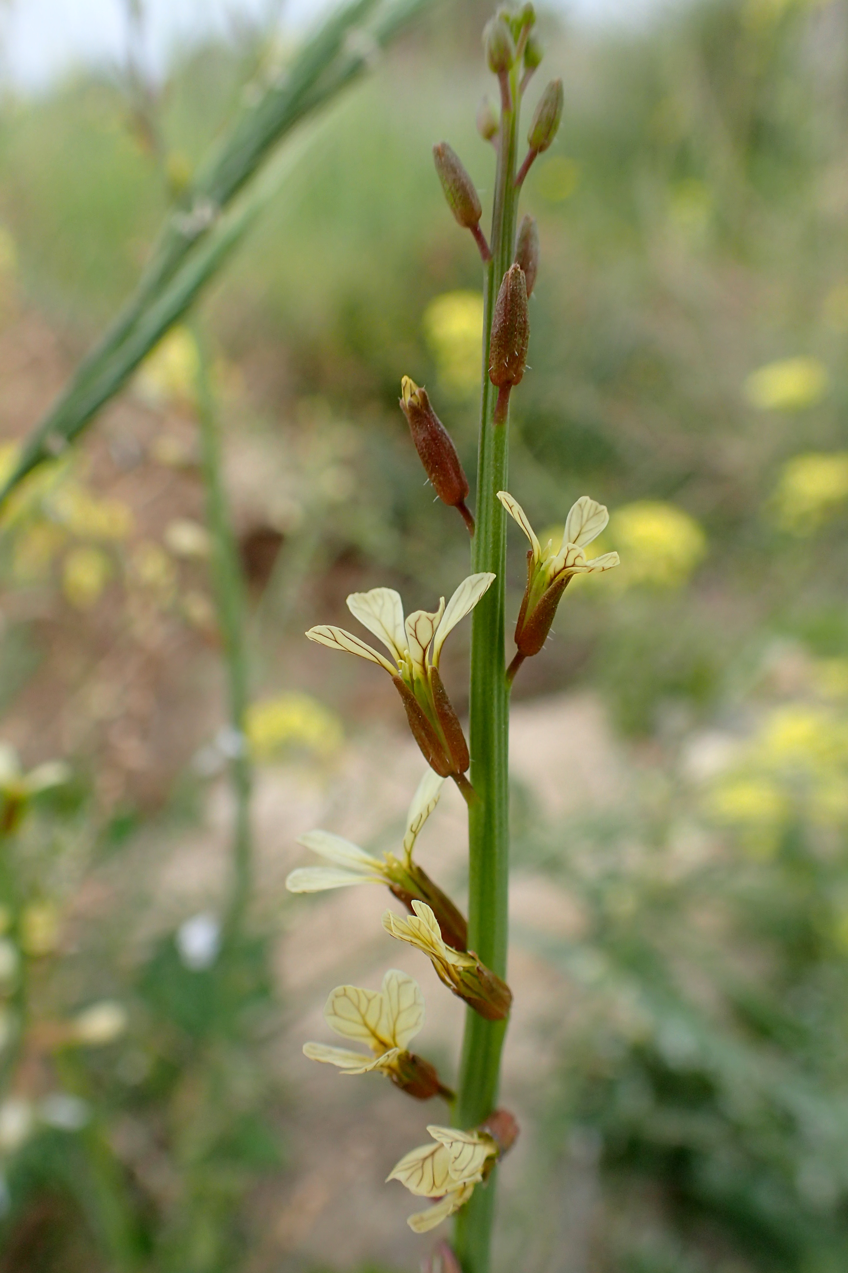 Carrichtera annua near mouth of Xeros Potamos, Cyprus